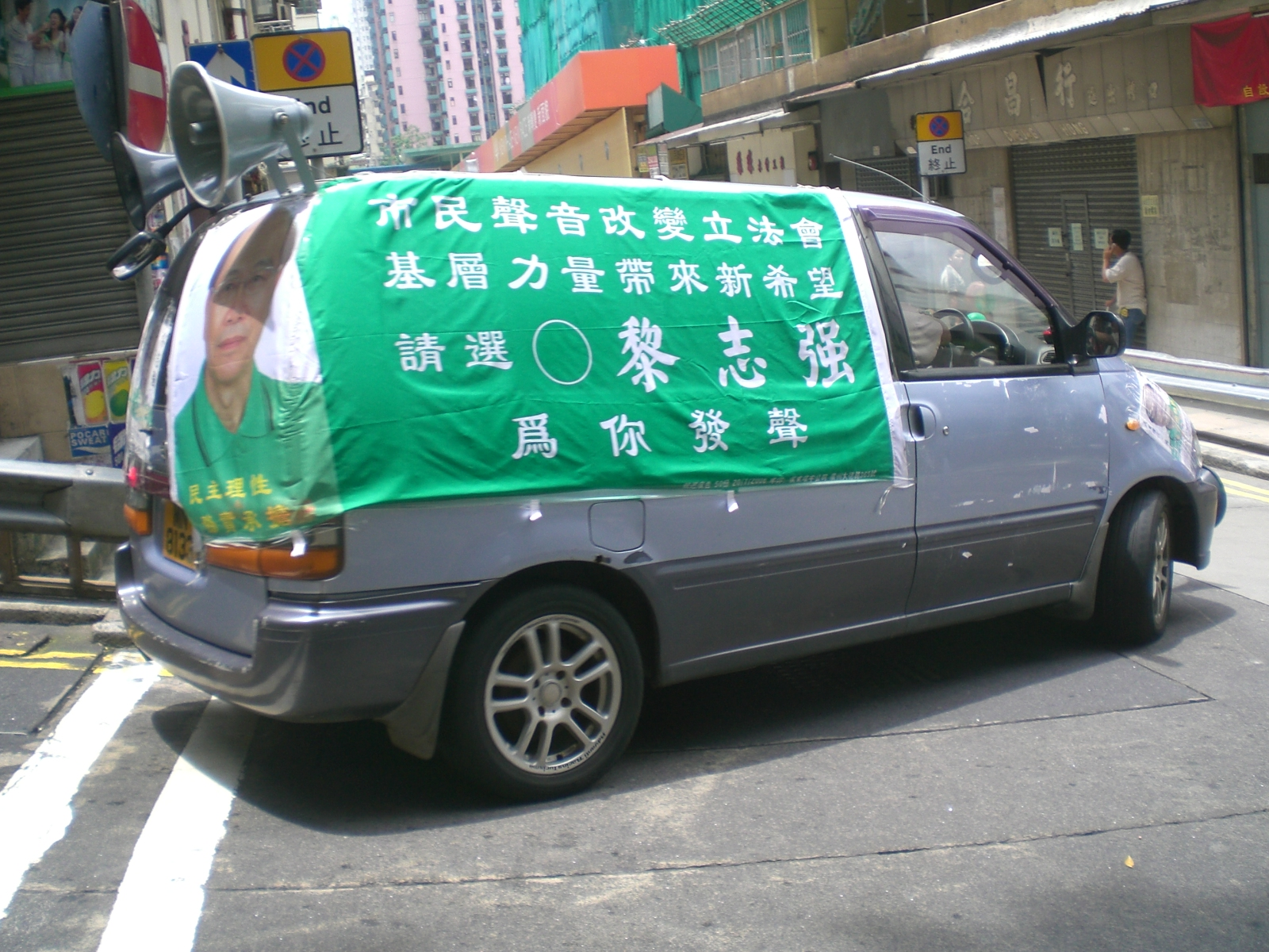 Political sound truck in Hong Kong, during the 2008 Lego election. These tour neighborhoods during election campaigns, speaking for their candidate with the high powered public address system on the roof. zh:2008年香港立法會選舉在香港島 黎志強